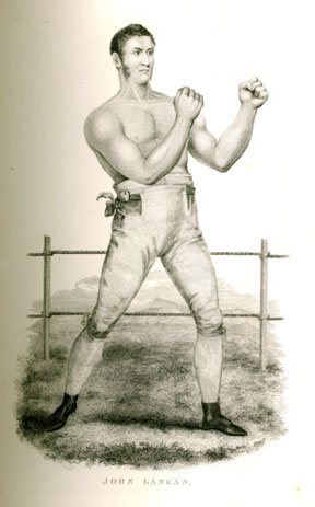 Print of the 1820s of the Irish boxer Jack Langan. Public domain by virtue of age